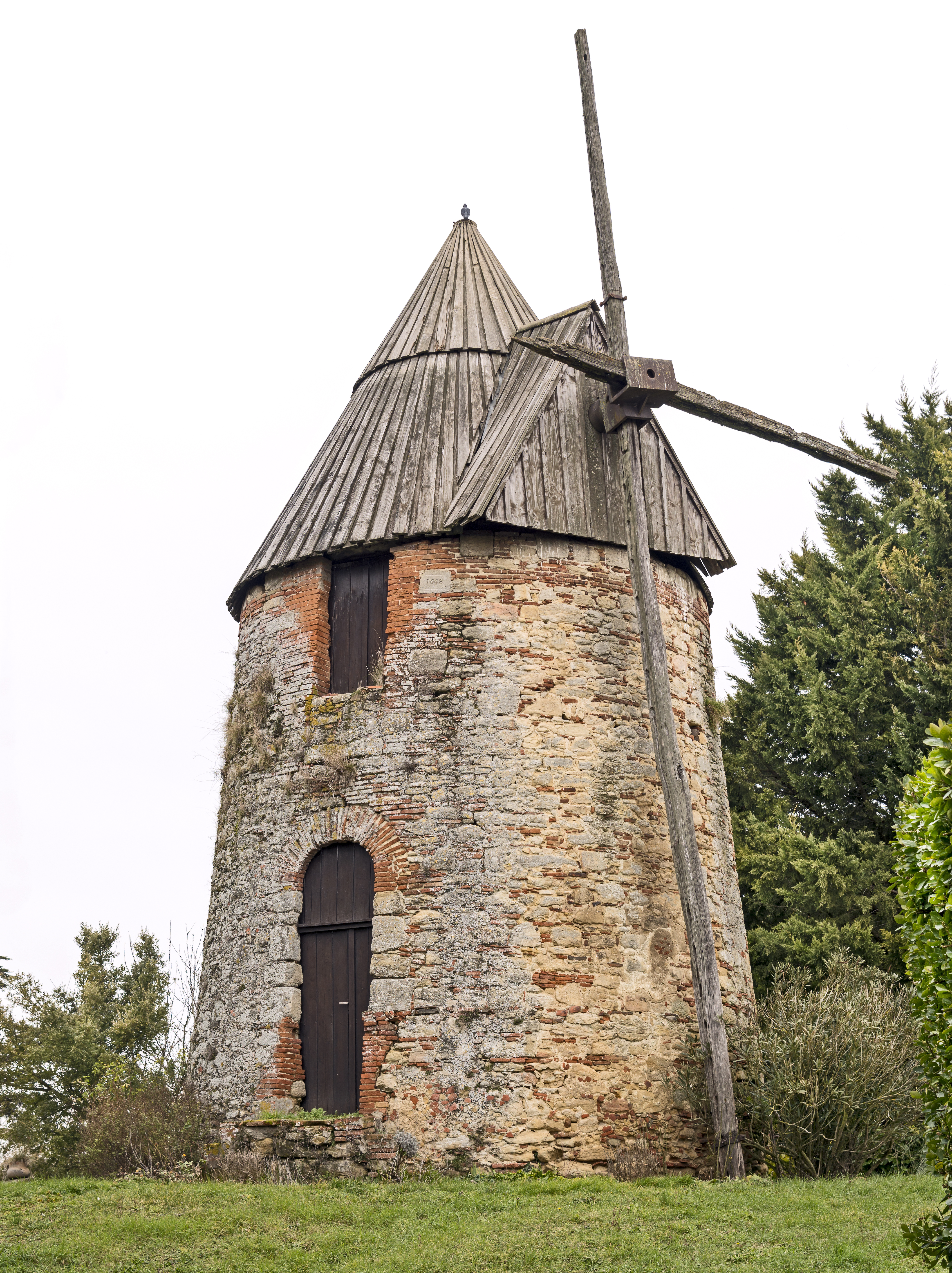 "En Carretou" windmill (1648) in Mascarville, Haute-Garonne, France